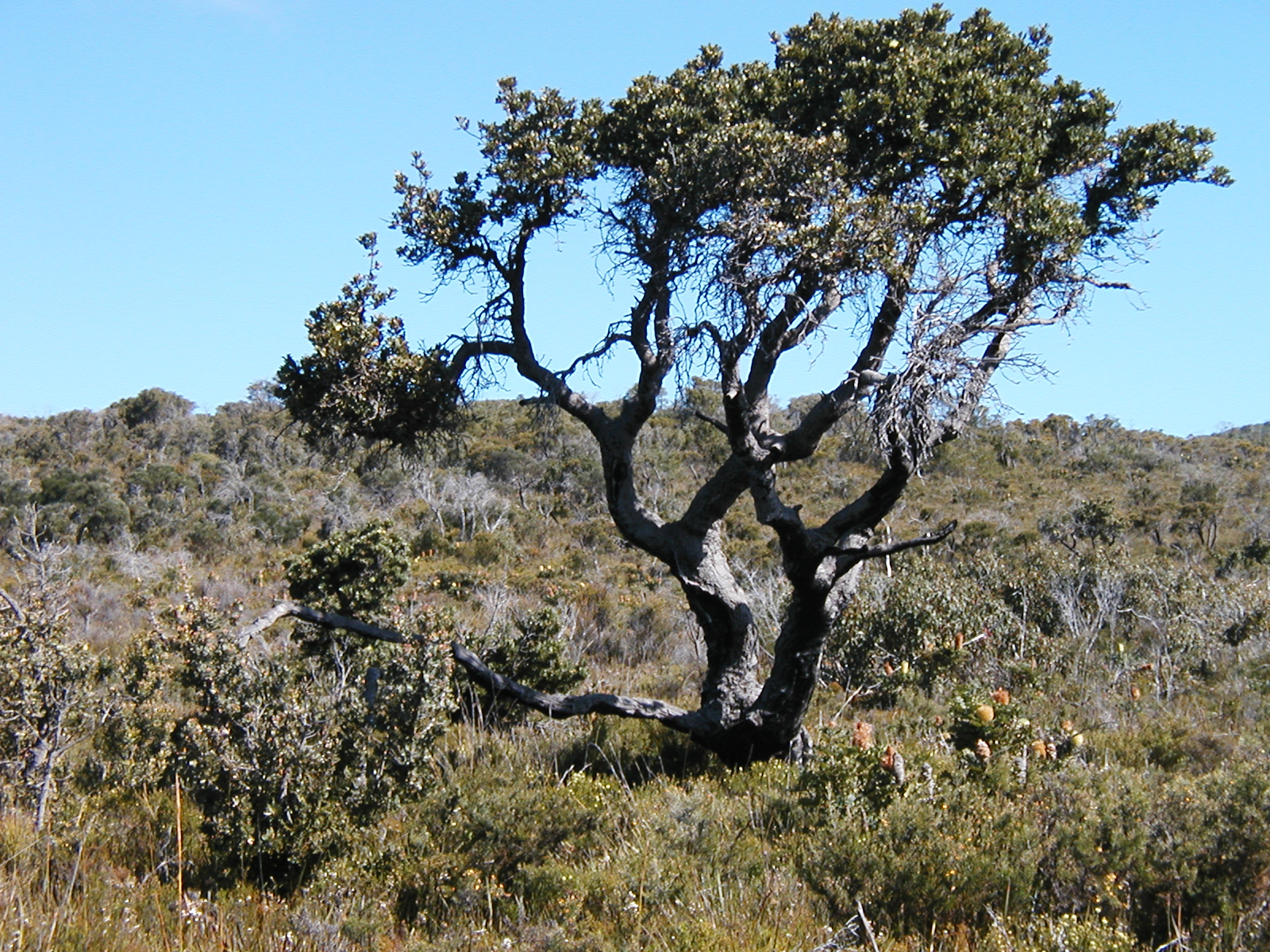 Banksia ilicifolia as a gnarled stunted tree. Near Albany, WA